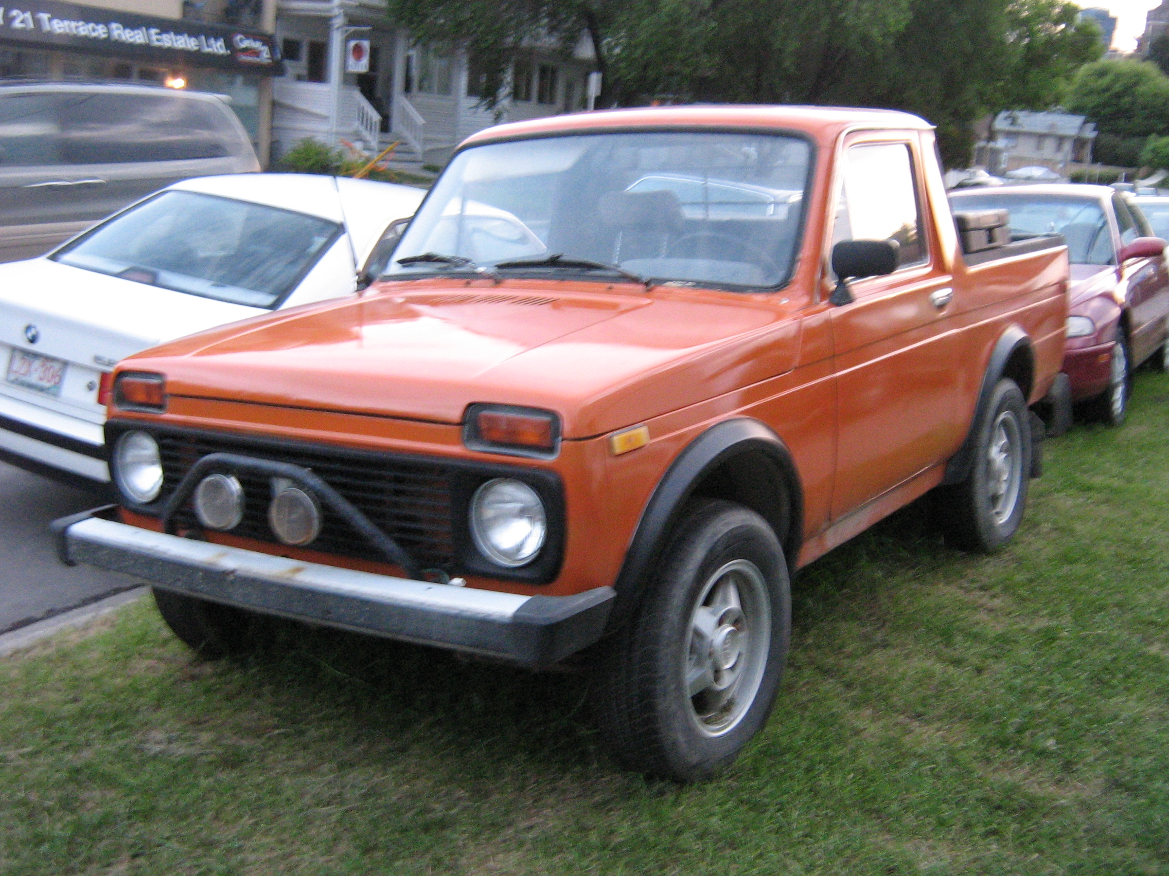 Lada Niva Truck - the pickup version is extremely rare. I've only ever seen this one. Its the second time I've spotted it. Apparently its in for some work to be done but may go up for sale soon. I talked to one of the guys at the shop and it used to be white in colour. It was originally new at this place (it was a Lada dealer and they still bring in parts).